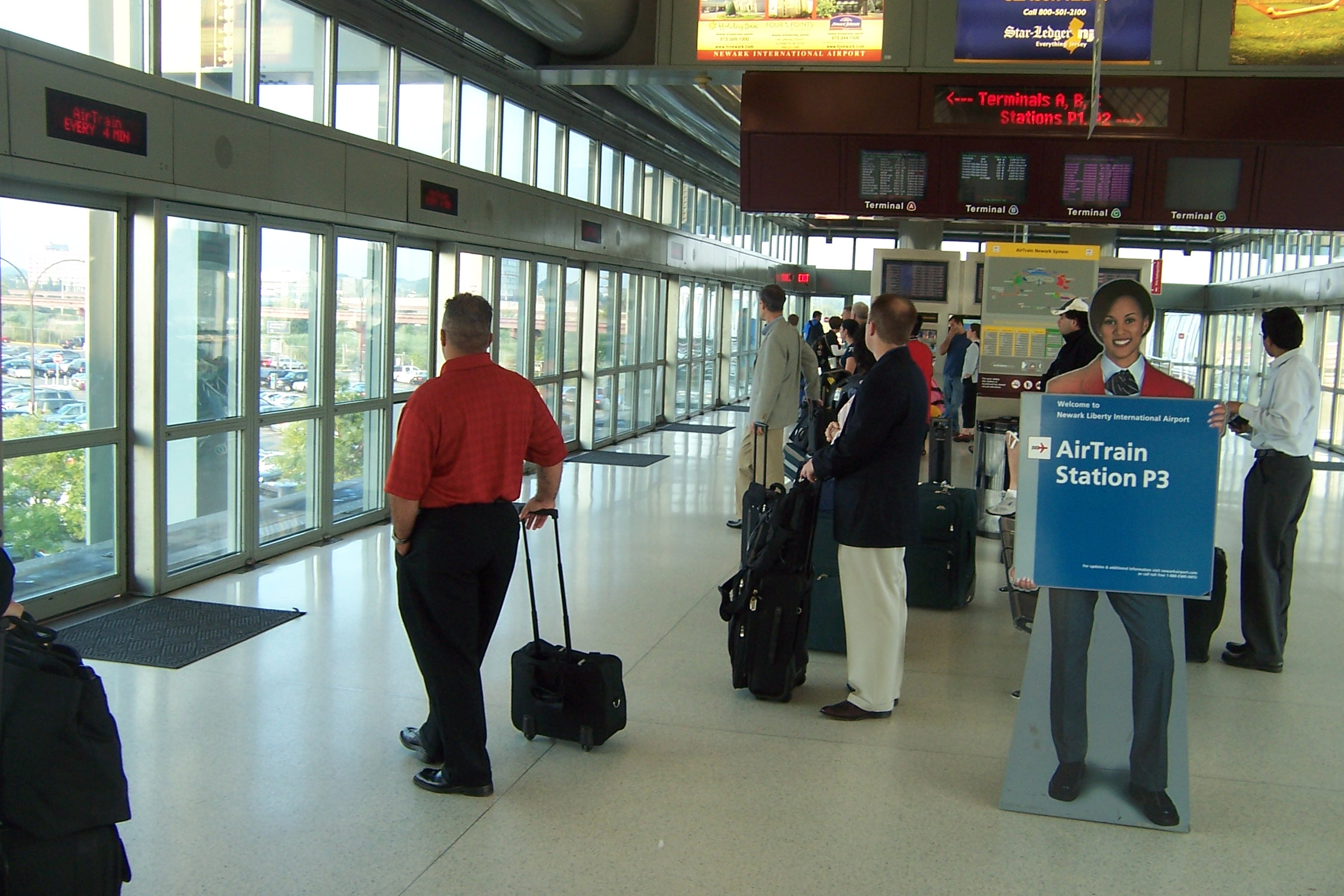 Interior of the P3 station platform on the Newark Monorail.